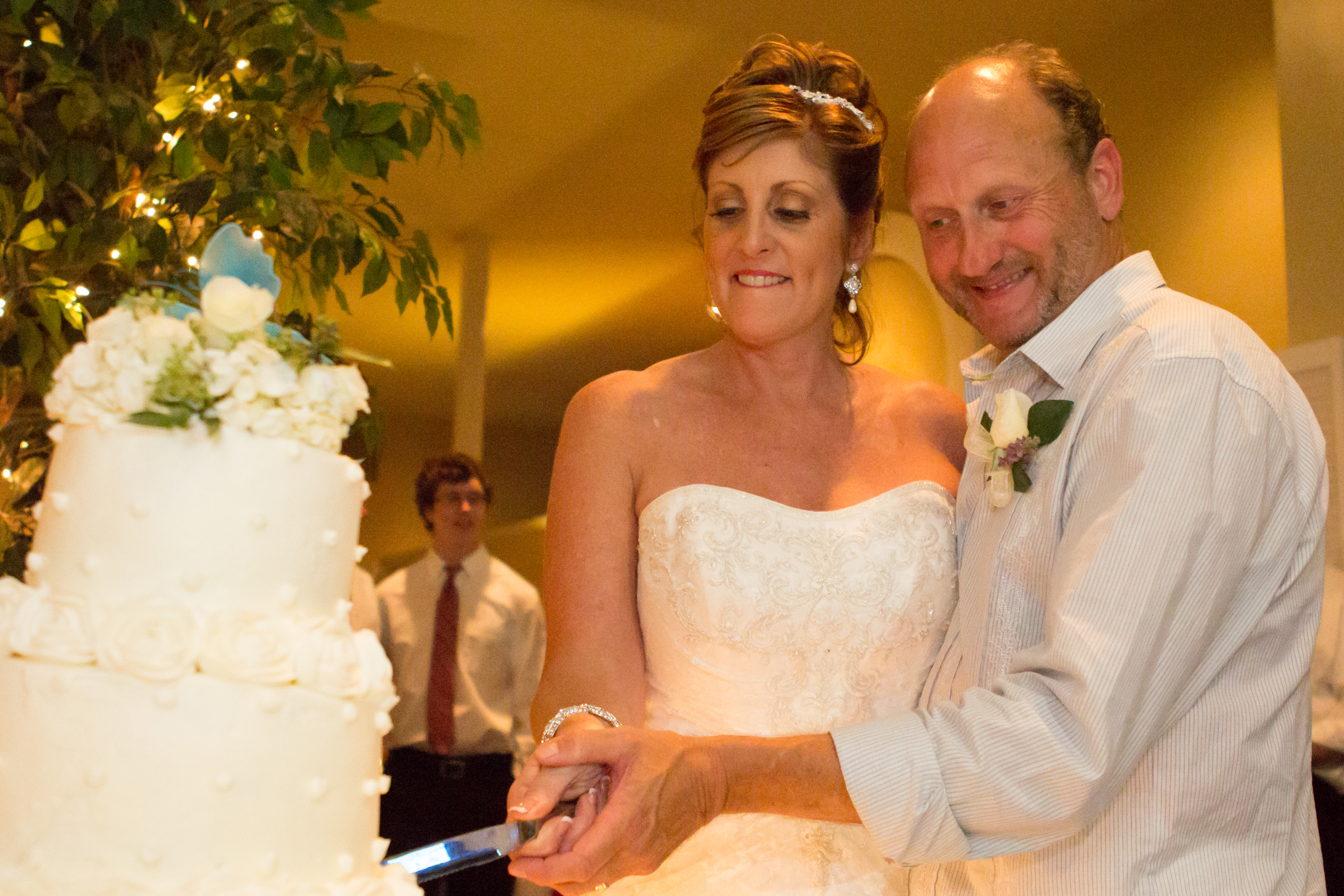 BethsWeddingReception-3494